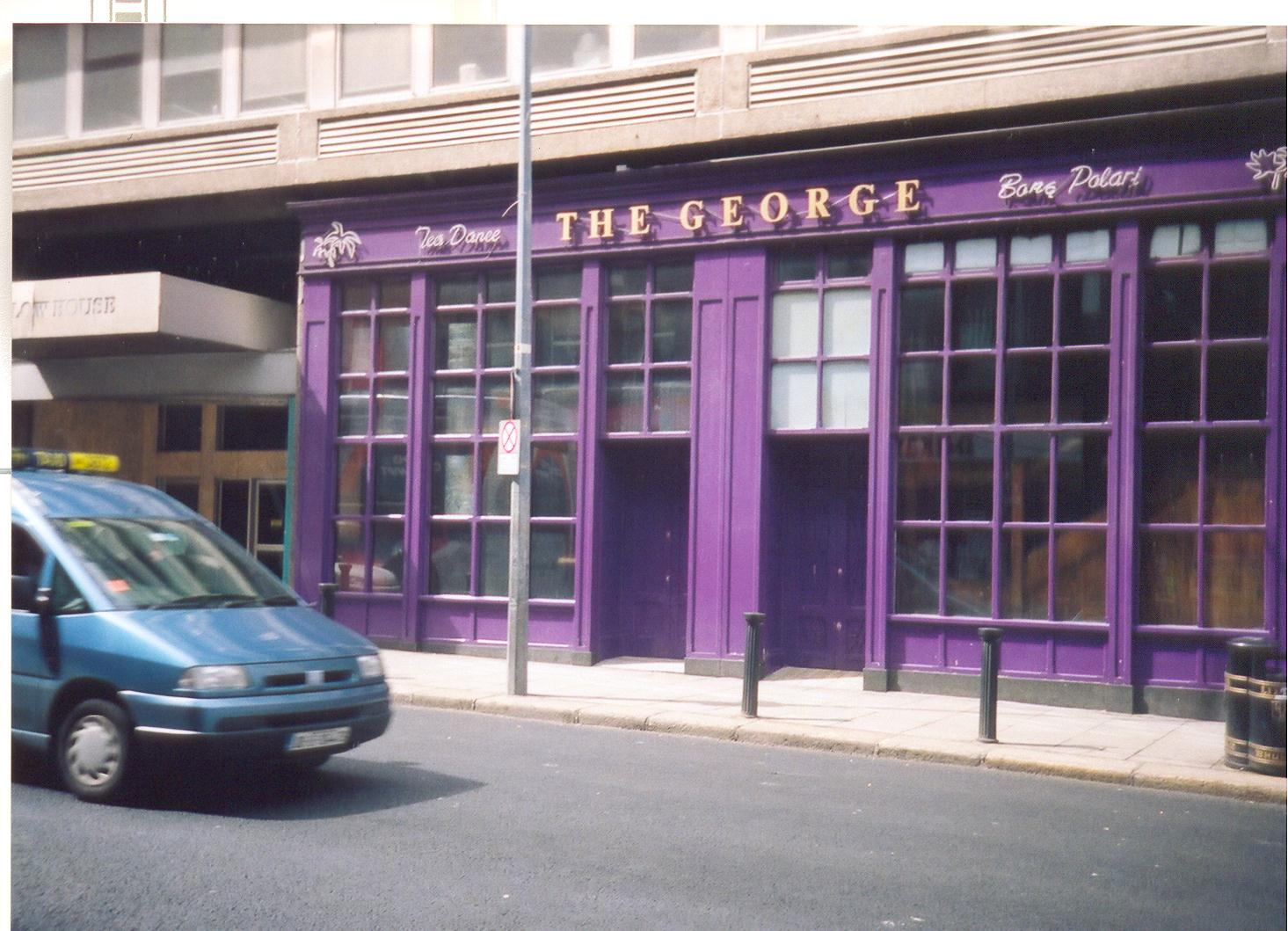 The George, the biggest gay bar in Ireland, Dublin/Baile Átha Cliath